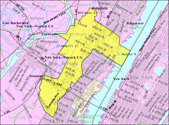 U.S. Census Bureau map of North Bergen